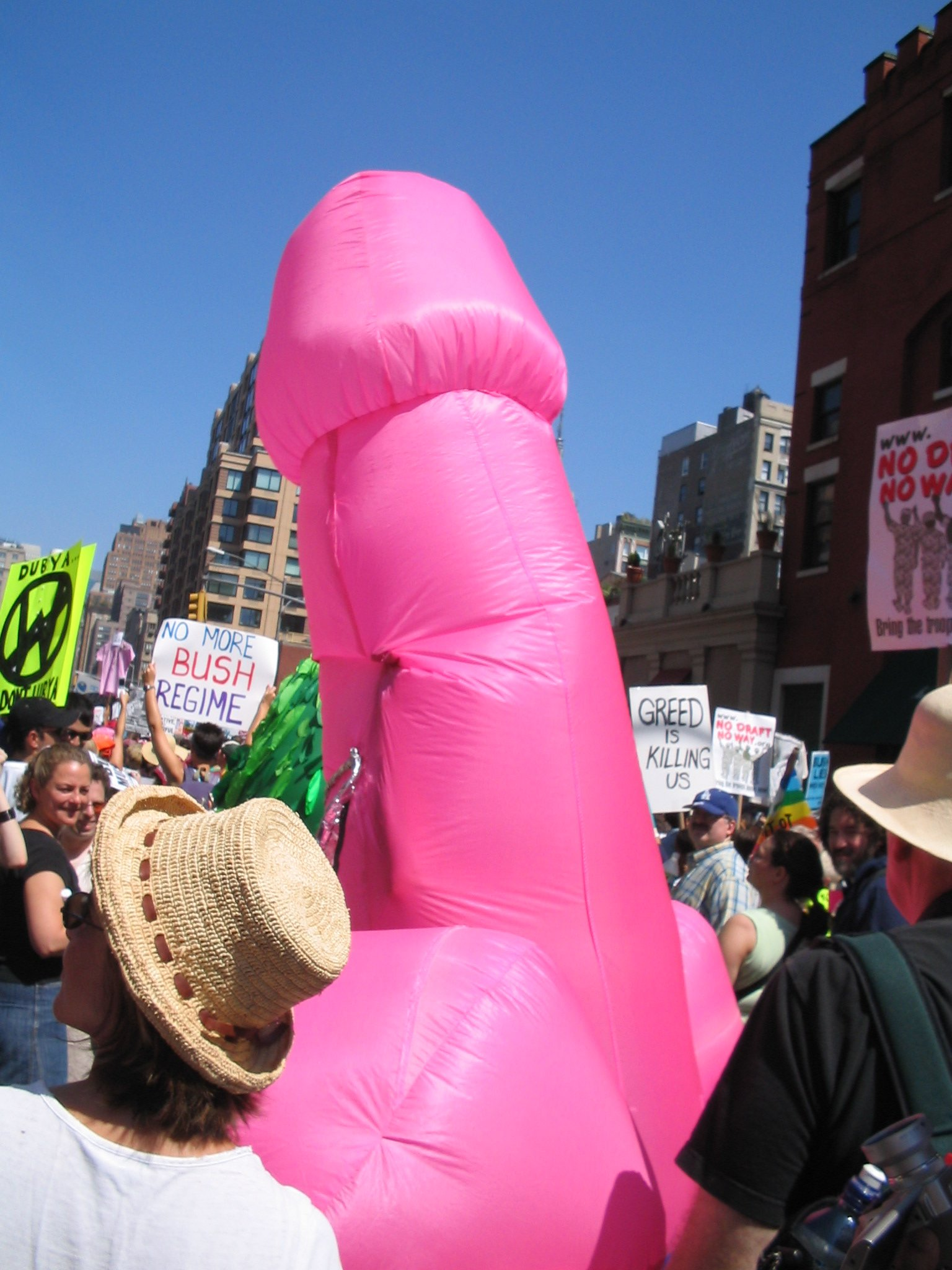 Effigy of Dick Cheney, with effigy of Bush barely visible marching in front, at the August 29 march to protest the RNC convention in NYC. I took this picture shortly after being squirted by Dick (the person inside had some sort of watergun), and release this image into the public domain.